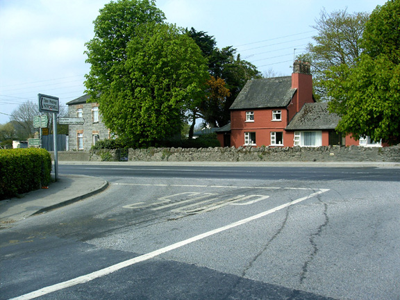 Clarina Cross-Roads This is at the junction of the N69 and the road from Patrickswell. These are now private houses. Formerly they were the R.I.C. barracks and the old Church of Clarina School.